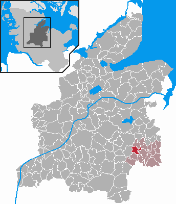 Locator maps of municipalities in Schleswig-Holstein - District Rendsburg-Eckernförde